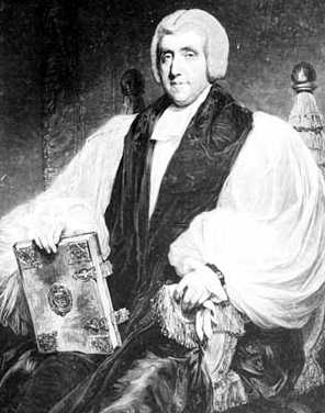 Edward Venables-Vernon-Harcourt (1757-1847) was an English clergyman who was Bishop of Carlisle from 1791 to 1807, and then Archbishop of York until his death. He was the third son of the George Venables-Vernon, 1st Baron Vernon (1710-1780), and took the additional name of Harcourt on succeeding to the property of his cousin, the last Earl Harcourt, in 1831.